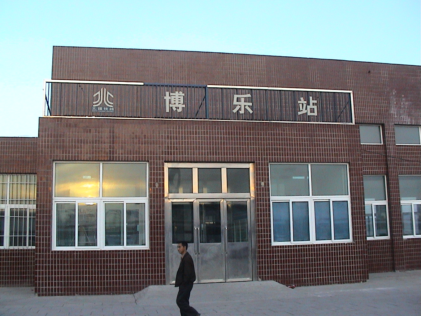 Bole railway station This image was taken by User:Yaohua2000 at 2006-04-25 23:56:03 UTC.